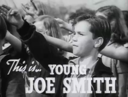 Darryl Hickman in "Joe Smith, American", by Richard Thorpe (1942)